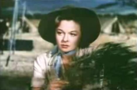 Screenshot of Susan Hayward from the film The Snows of Kilimanjaro